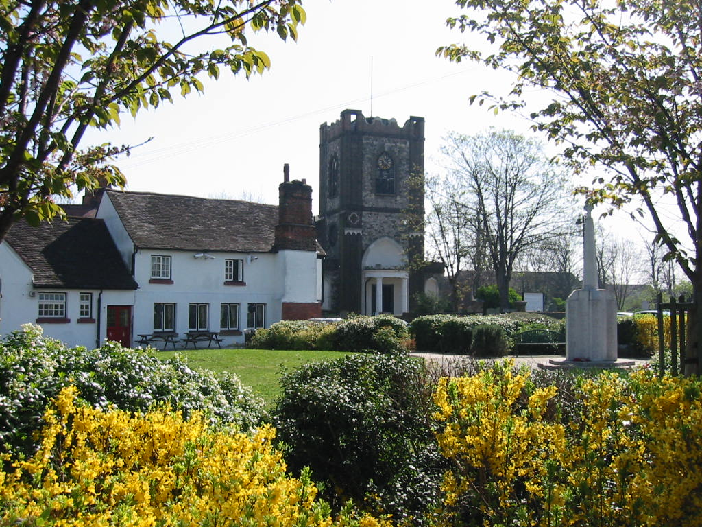 Part of the village green at Dagenham, Essex, looking east to the Cross Keys public house (left), SS Peter and Paul parish church (centre) and war memorial (right)